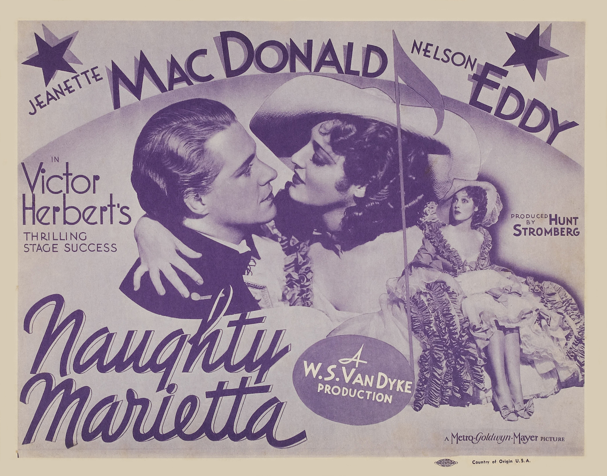 Lobby card for the 1935 MGM film Naughty Marietta